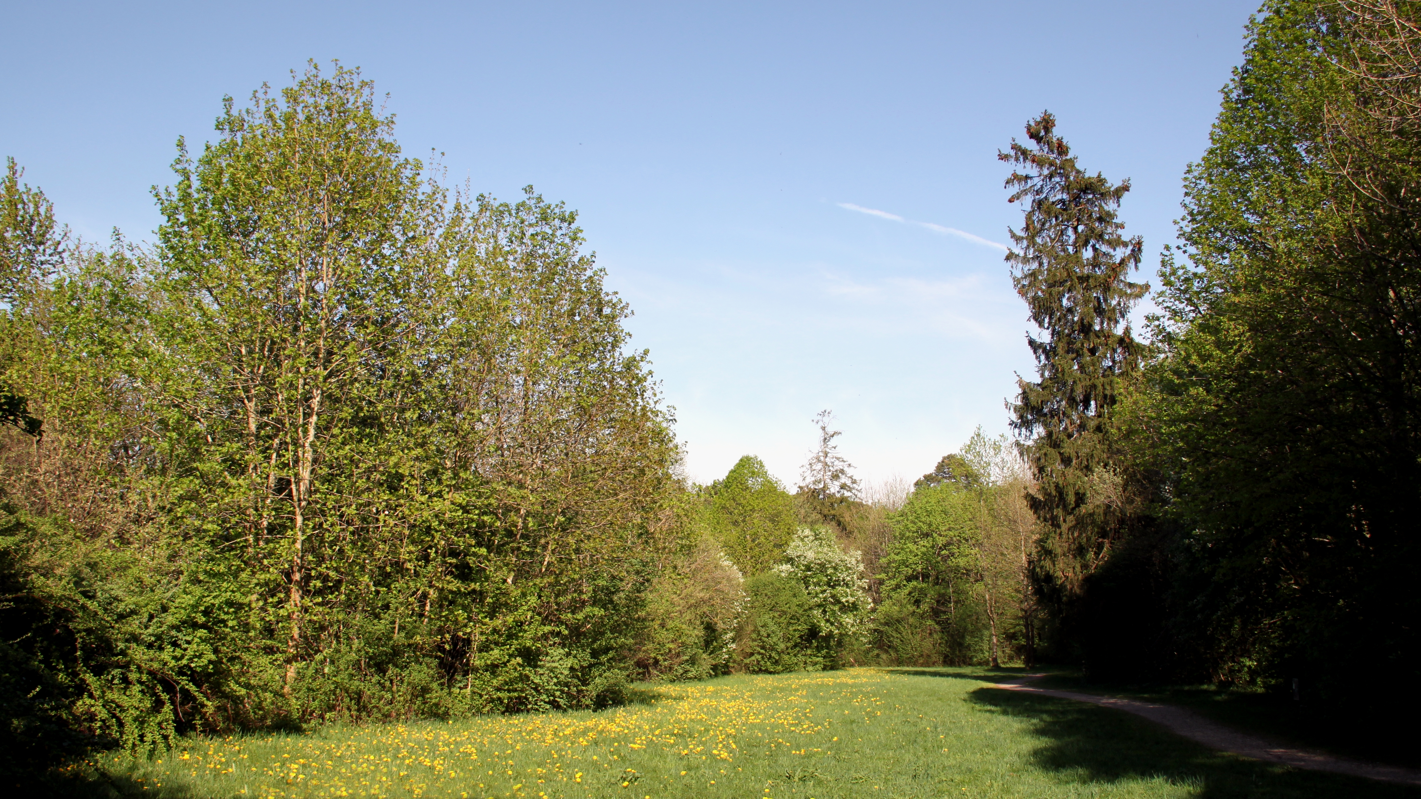 Ottobrunn: Clearing in the Bahnhofswald (railway forest), east of the Friedrich-Ebert-Straße.